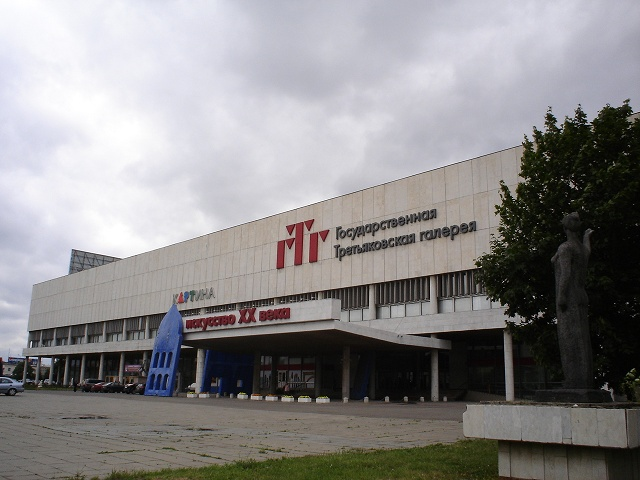 XX century exhibition building of State Tretyakov Gallery (Krymsky Val)